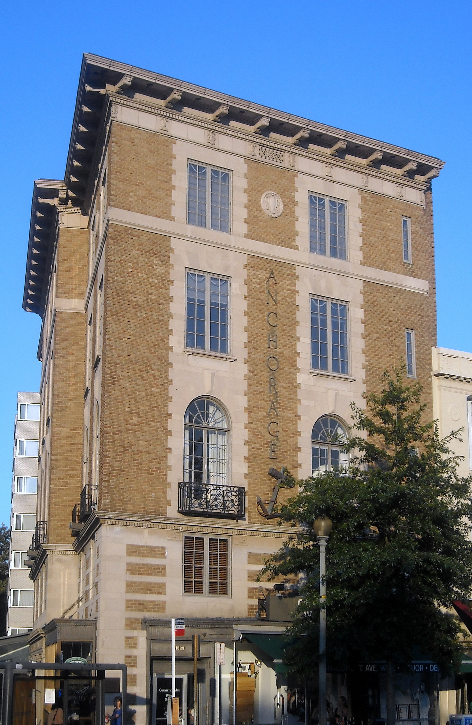 The Anchorage located at 1555 Connecticut Avenue, NW in the Dupont Circle neighborhood of Washington, D.C. The building was constructed in 1924 and designed by local architect Jules Henri de Sibour. Notable past tenants include Robert Kennedy, Tallulah Bankhead, Sam Rayburn, Charles Lindbergh, Ernest Cuneo, and Arthur Goldberg. The Anchorage is a contributing property to the Dupont Circle Historic District.